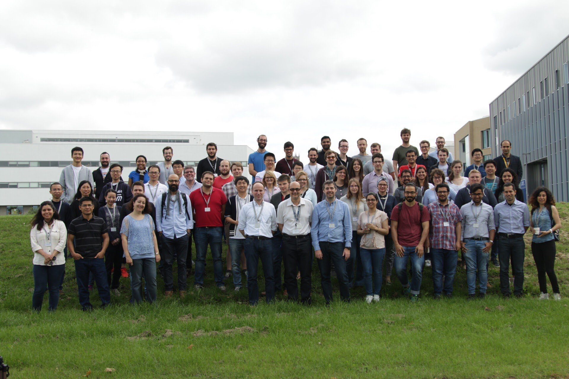 Attendants of the BMVA Summer School 2017 in a group photo.